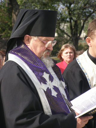 Vsevolod, Lugansk bishop of Ukrainian Orthodox Church - Kiev Patriarchate Ukraine